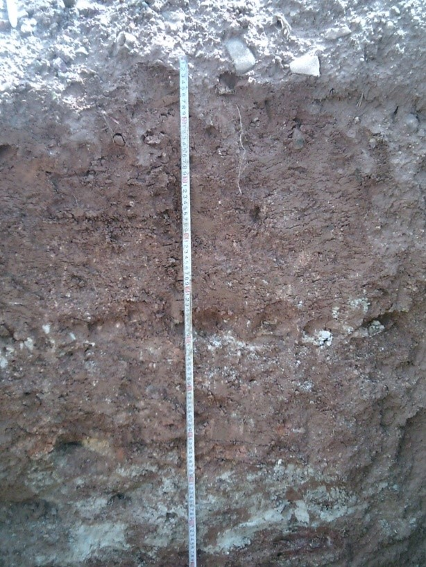 Colluvic Calcic Luvisol in Agbe Ethiopia profile